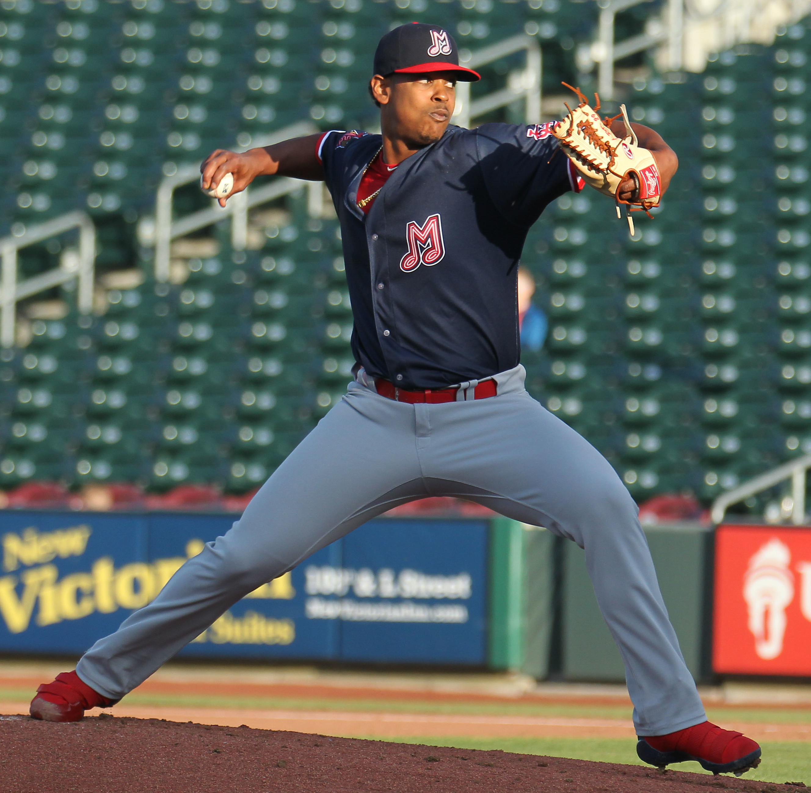 Alex Reyes delivers a pitch for the Memphis Redbirds during an April 2019 game at Werner Park in Nebraska